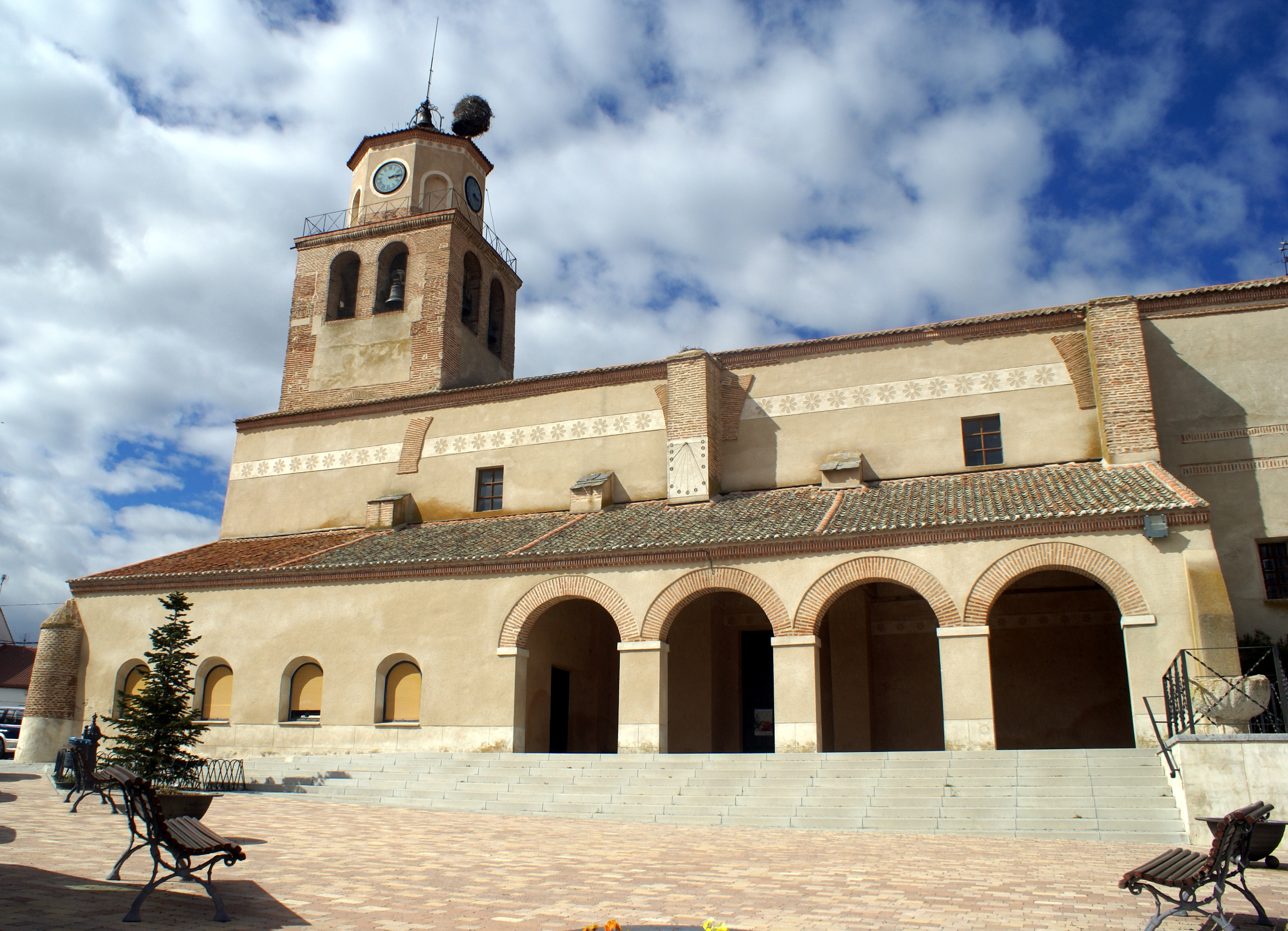 Church of St. John the Baptist, Santiuste de San Juan Bautista, Segovia, Spain.